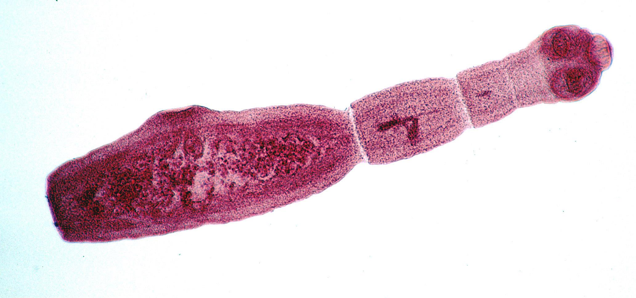 Stained adult tapeworm (Echinococcus multilocularis) of dogs and foxes. Also as larval cysts causes hydatid disease of humans.